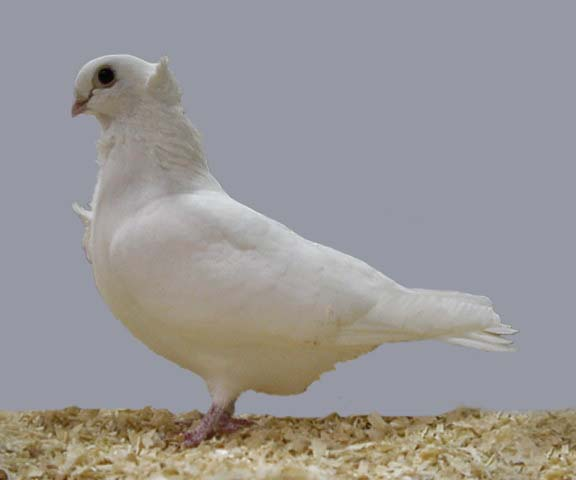 Old German Owl (Self White)